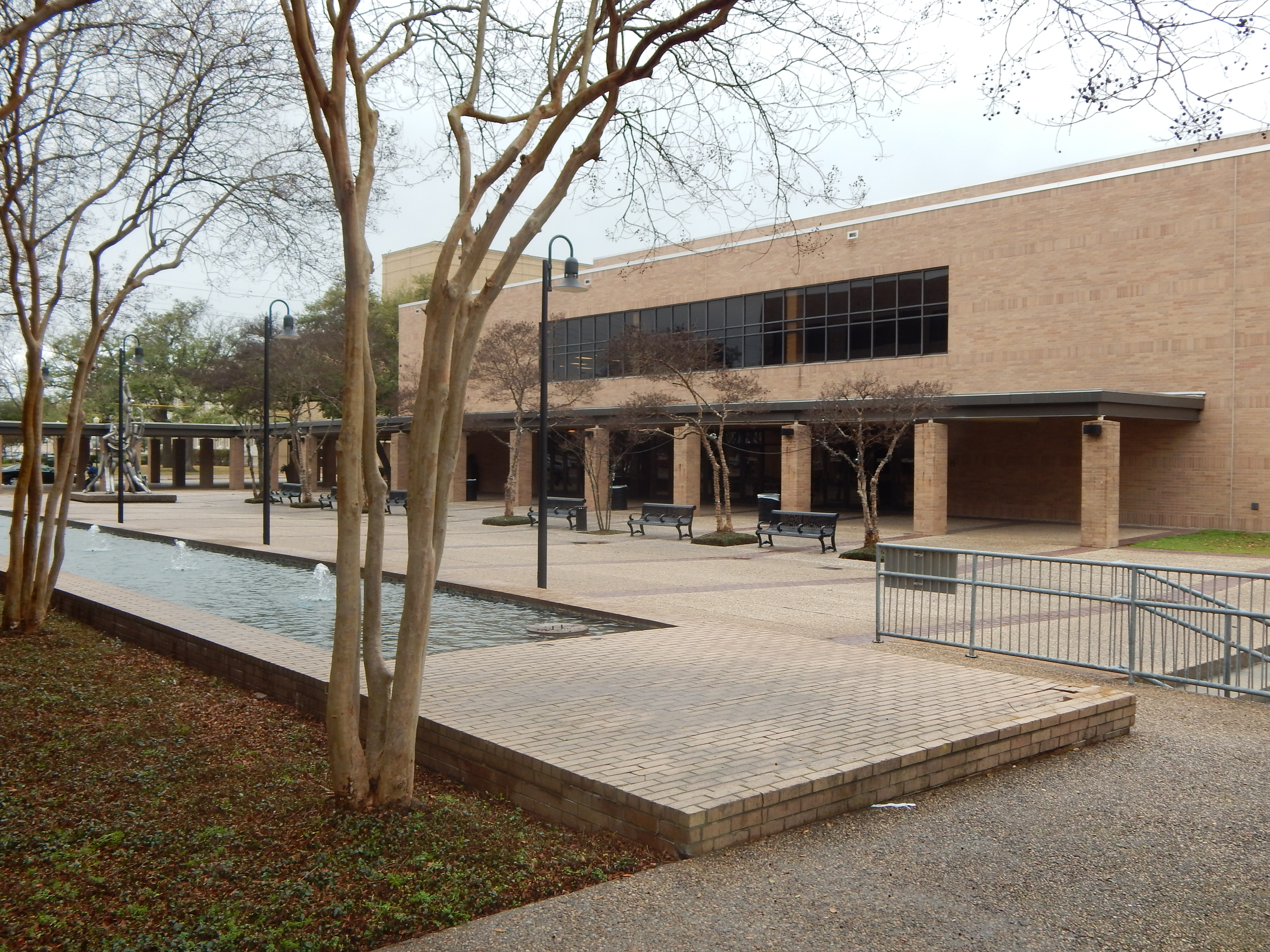 Beaumont Civic Center entrance